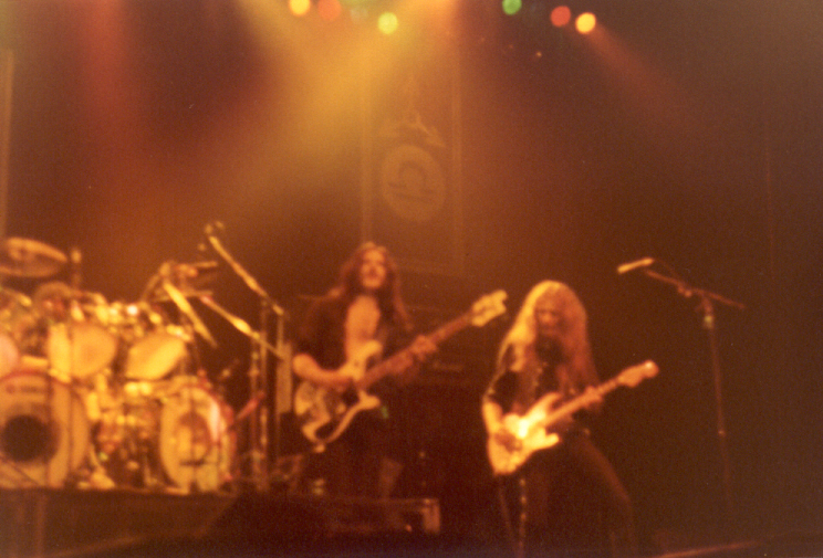 Motorhead, Hammersmith 1980somthing